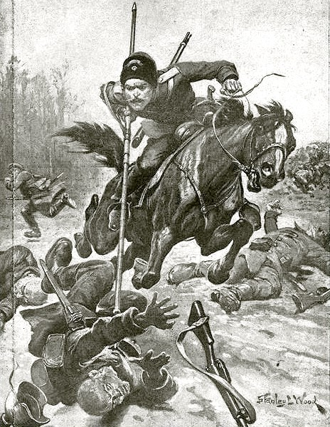 Cossack's Herculean Strength and Epic Courage. Drawing from The War Illustrated. The caption reads: One of the greatest feats of the war, a Cossack exploit in which eleven Germans were killed, is now the talk of Petrograd. A trooper of the 6th Don Cossack Regiment was engaged in an attack on a German transport column. Observing six Germans in a trench about to enfilade the Russian main body, he charged the position and spitted two with his lance, while the other four fled. These he chased and killed individually. Later five German riflemen attacked the Russians, and again Kirjanoff charged, disposing of three with his lance. The others fled to the wood, where the amazing Cossack dispatched them with his sword.